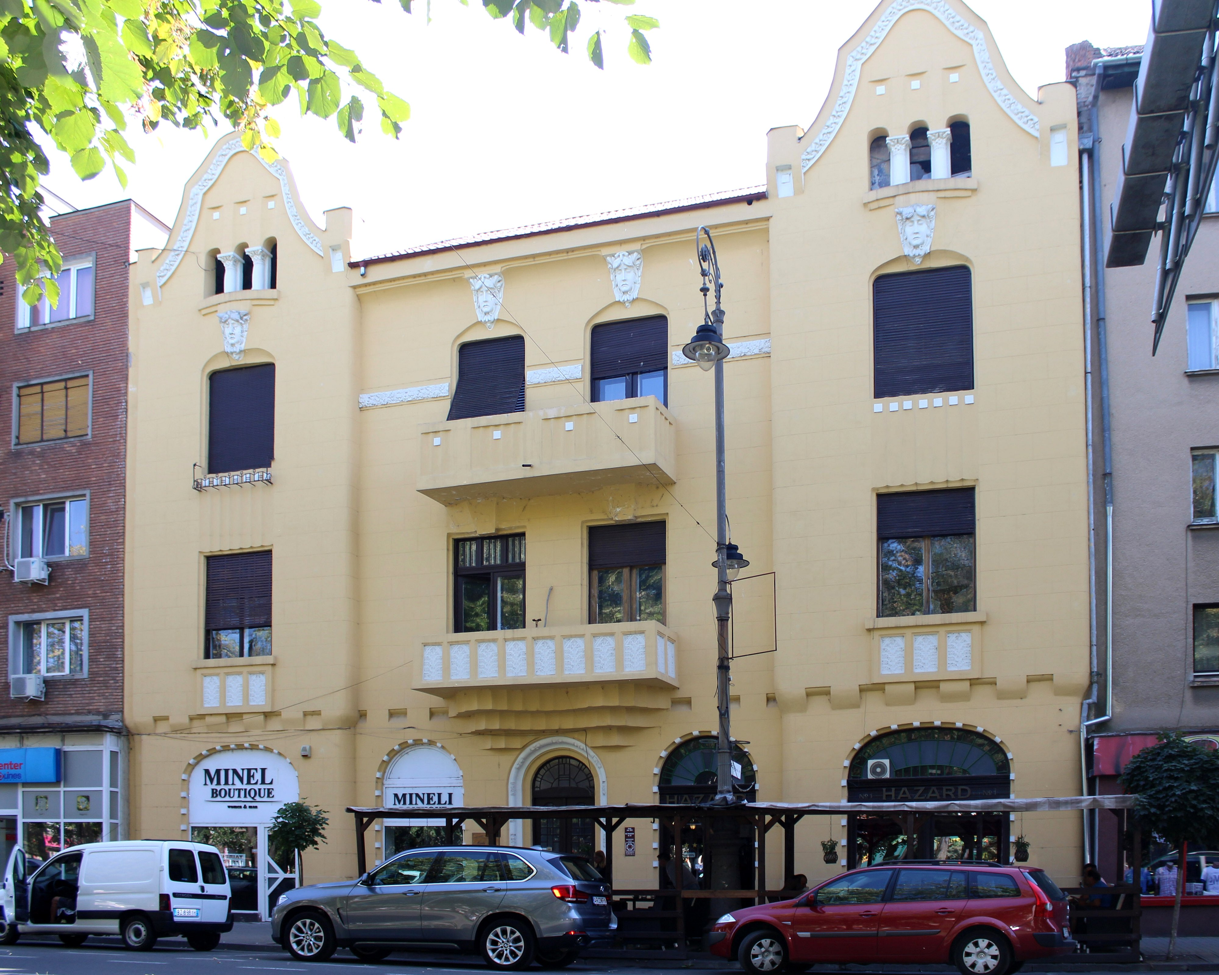 House in Arad, Romania, Revoluției av., no 33, built about 1913